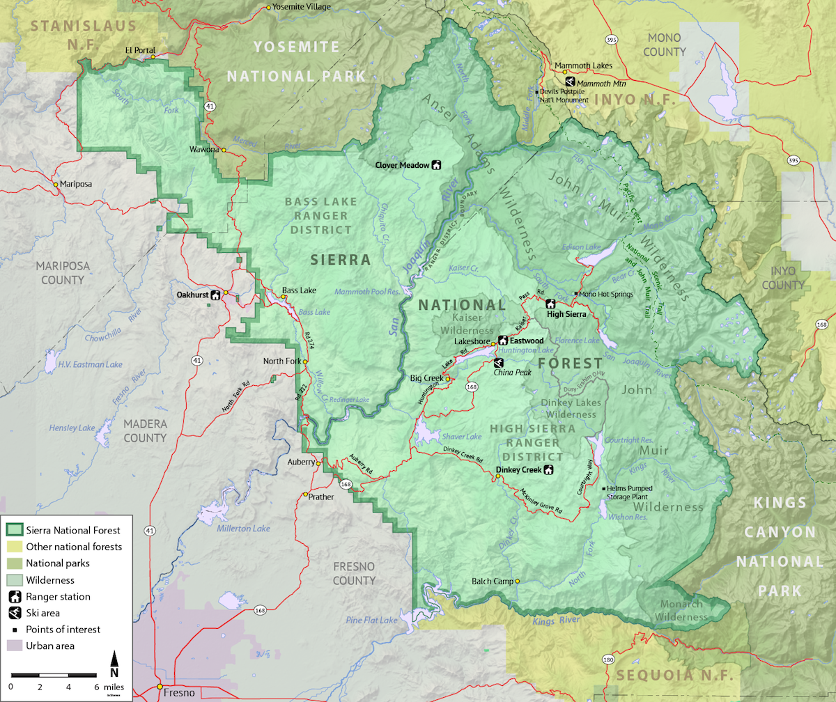 Map of the Sierra National Forest in central California, created using USGS and OpenStreetMap data. Currently a bit of a work in progress.